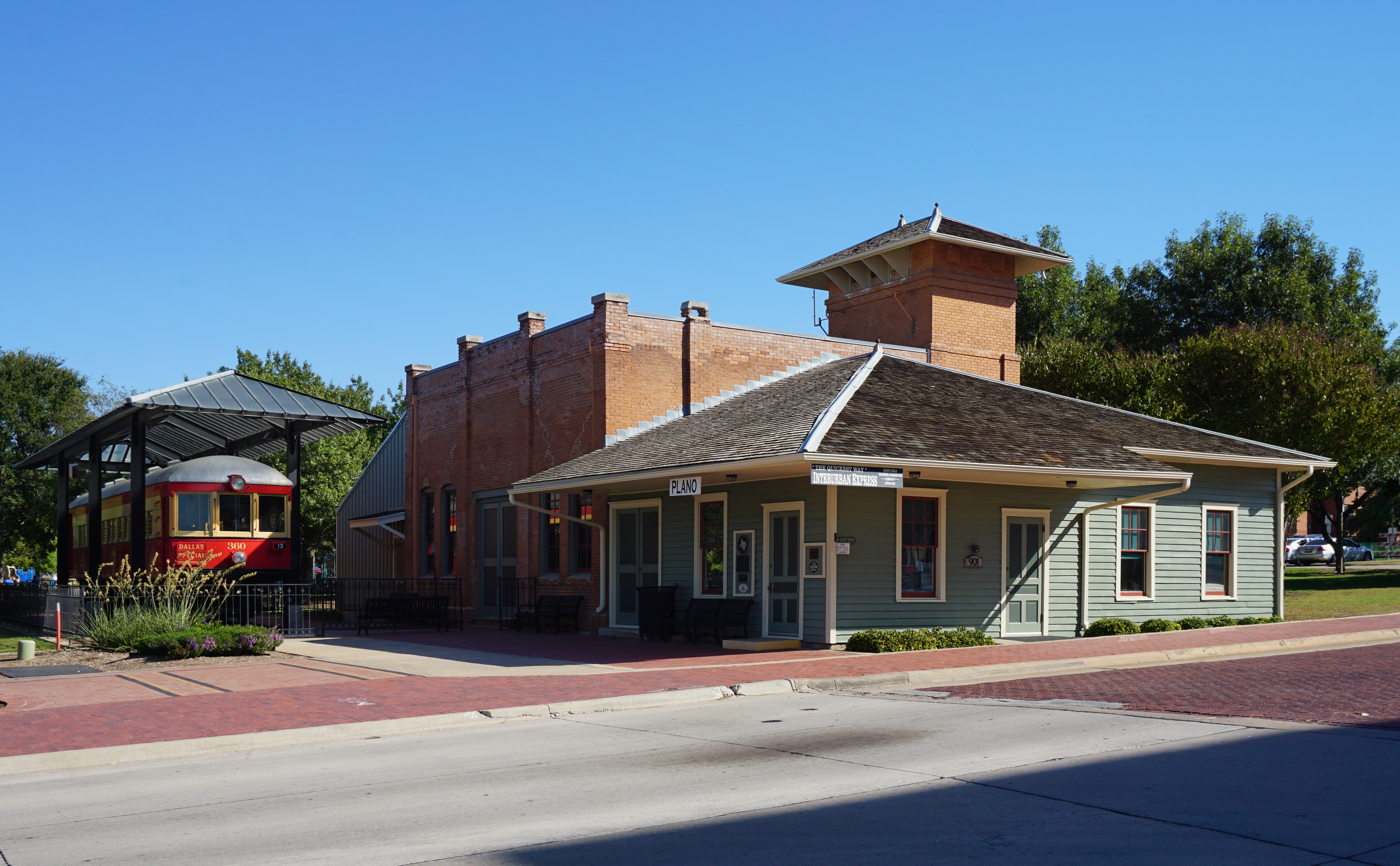 The exterior of the Interurban Railway Museum in Plano, Texas (United States).